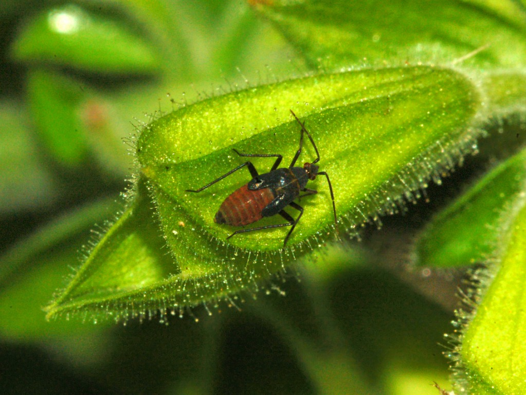 Miridae - Macrotylus quadrilineatus - Nymph - on Jupiter's Distaff (Salvia glutinosa - Parco dell'Antola, Genova, Italy